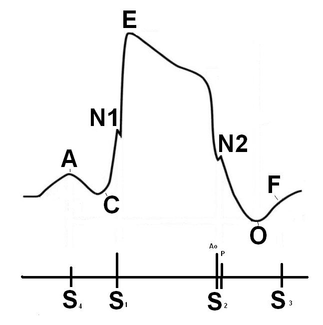 (Top) Apex-cardiogram. A = a positive wave that reflects left ventricular filling due to left atrial contraction; C = systolic wave; E point = maximal systolic peak; O point = onset of the rapid filling wave (mitral valve opening); F = oncet of slow filling wave (diastasis) (bottom) Schema of heart sounds